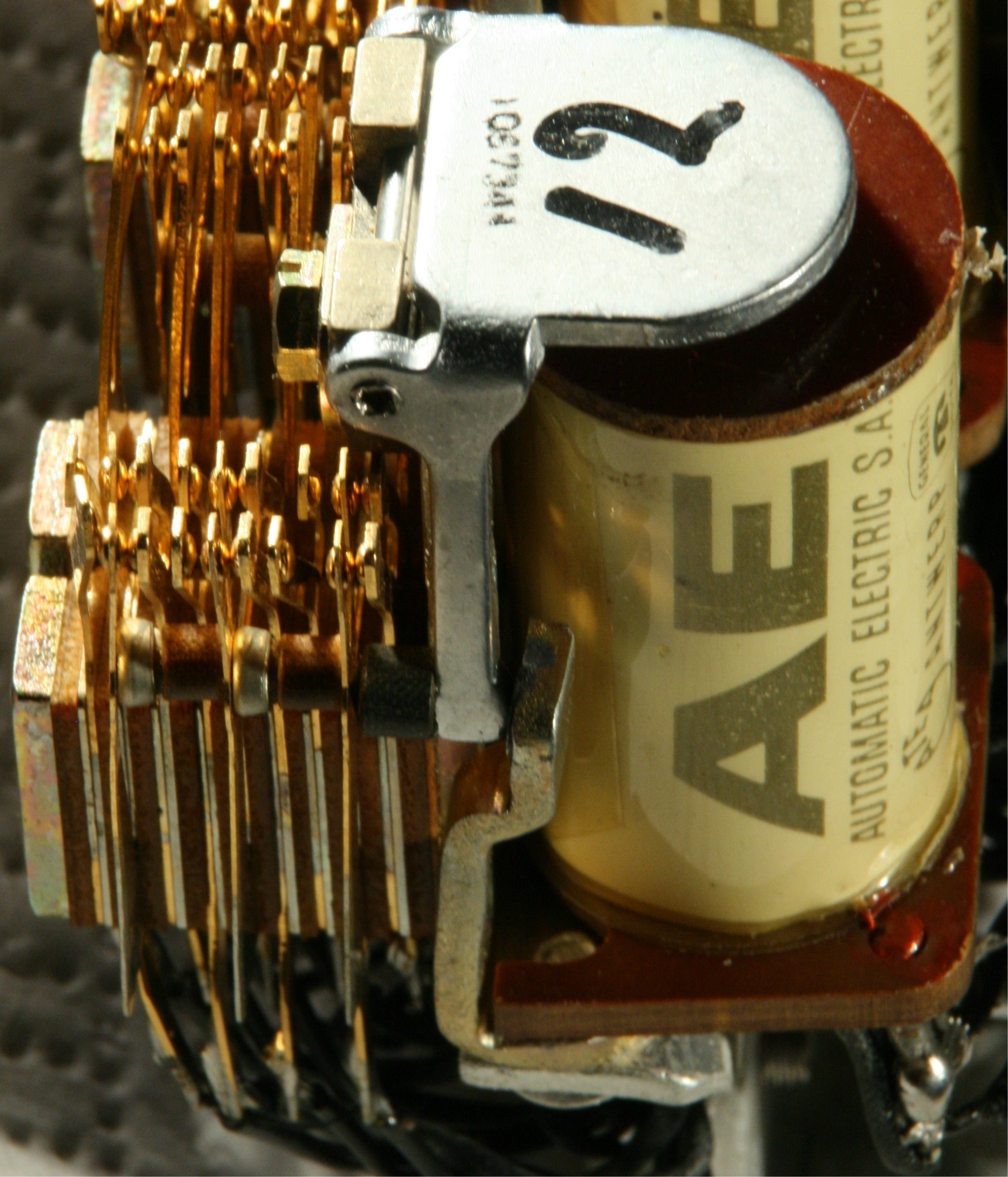 Friden Flexowriter. Close-up of one of the relays that controls the electrical operations.